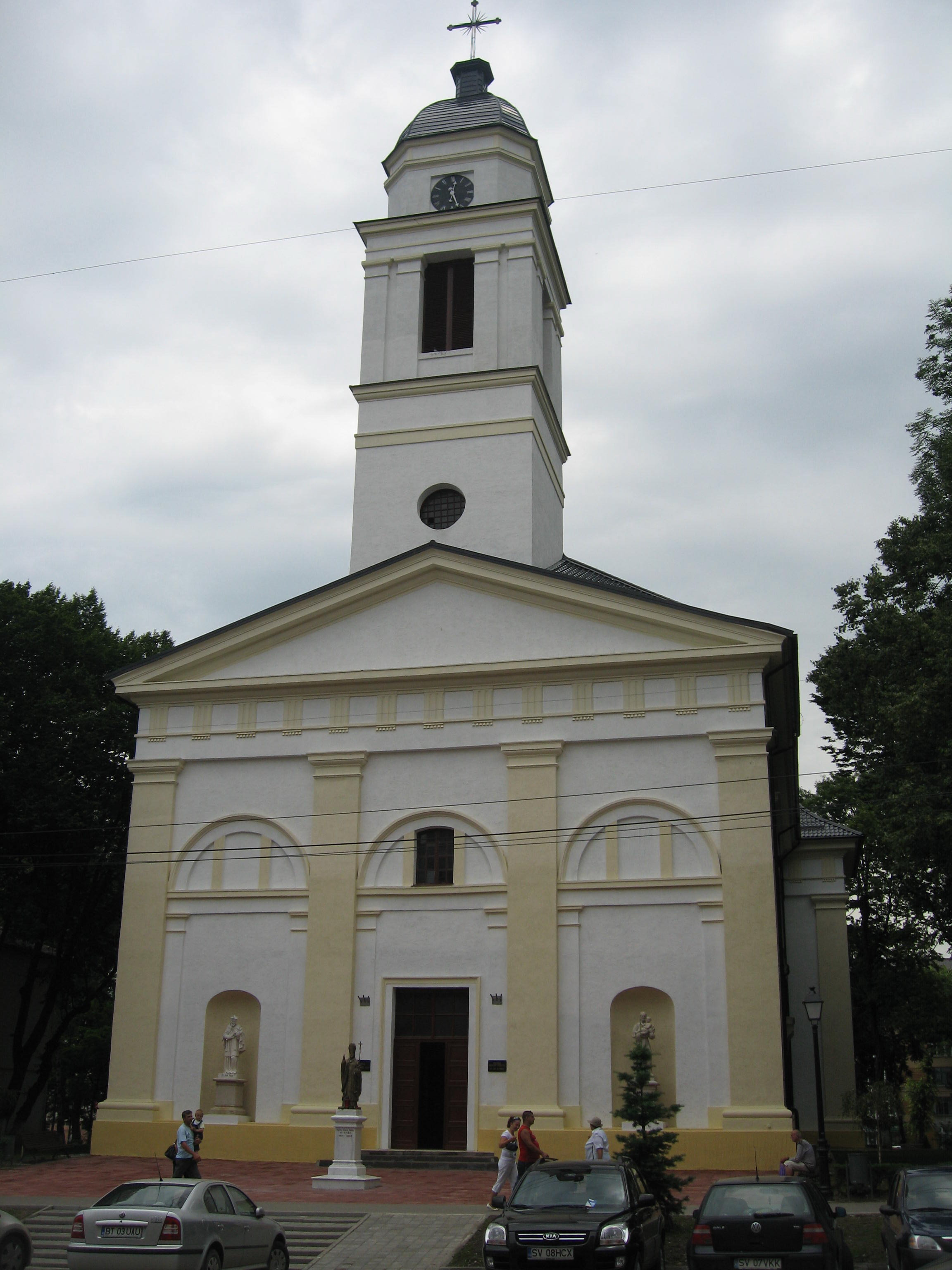 St. John of Nepomuk Roman Catholic Church in Suceava.